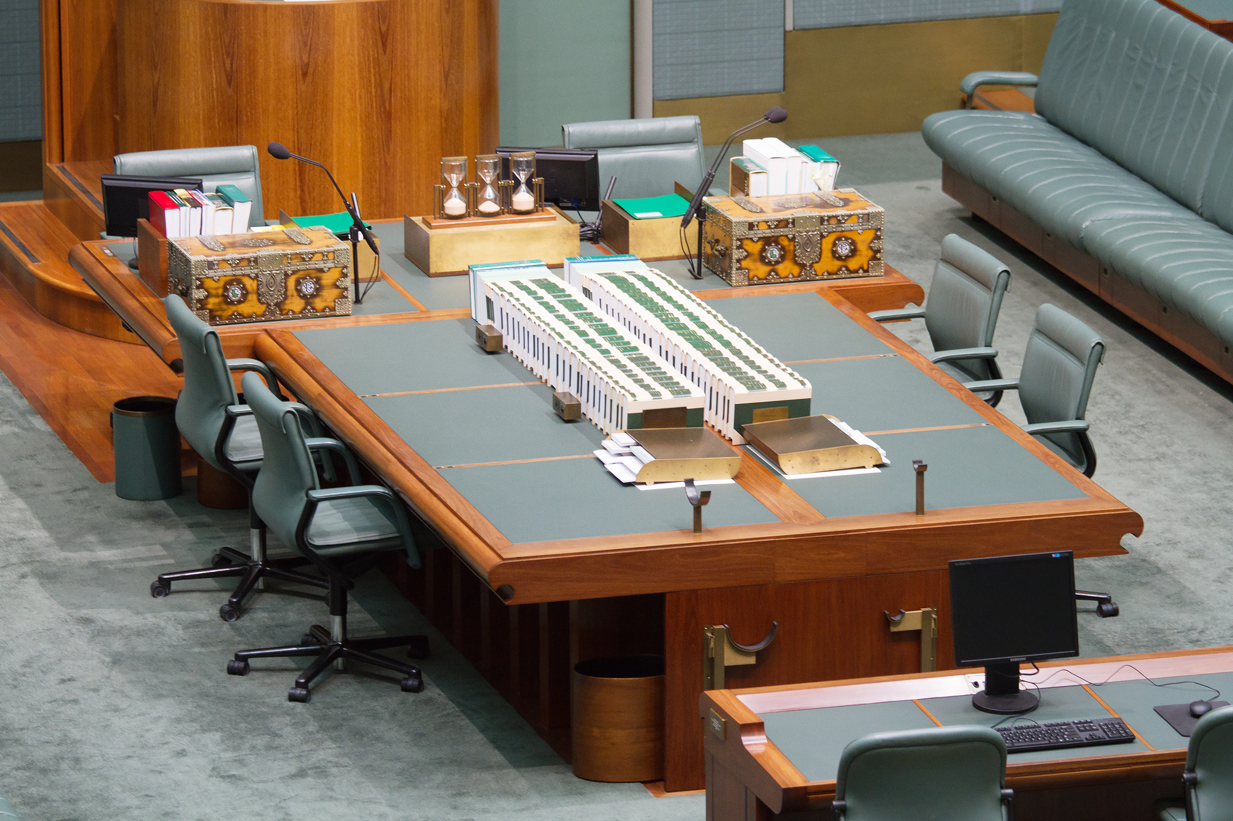 Australian House of Representatives centre desk, Hansard and dispatch boxes, Parliament of Australia, Canberra, Australia